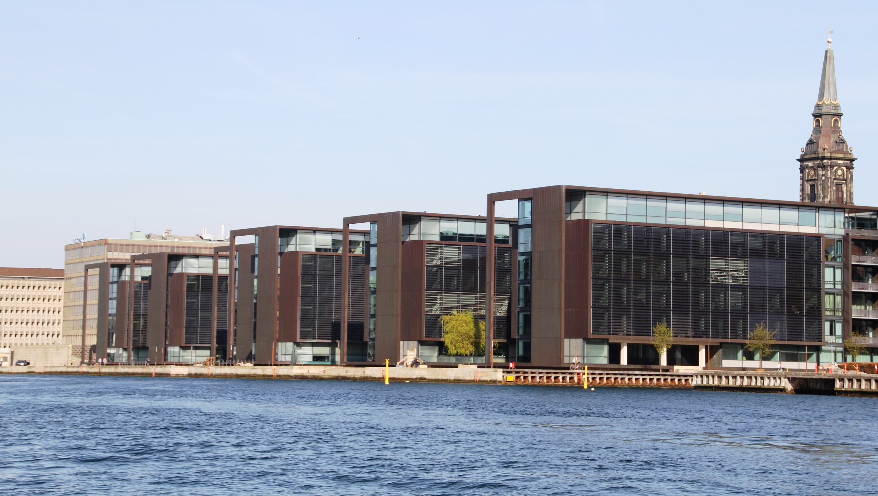 Image from Copenhagen, the capital of Denmark. This is the Ministry of Taxation (Skatteministeriet)